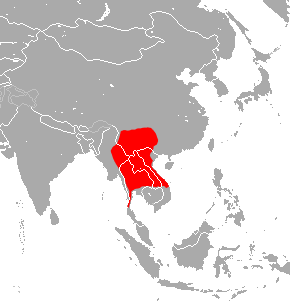 Thomas's Horseshoe Bat (Rhinolophus thomasi) range